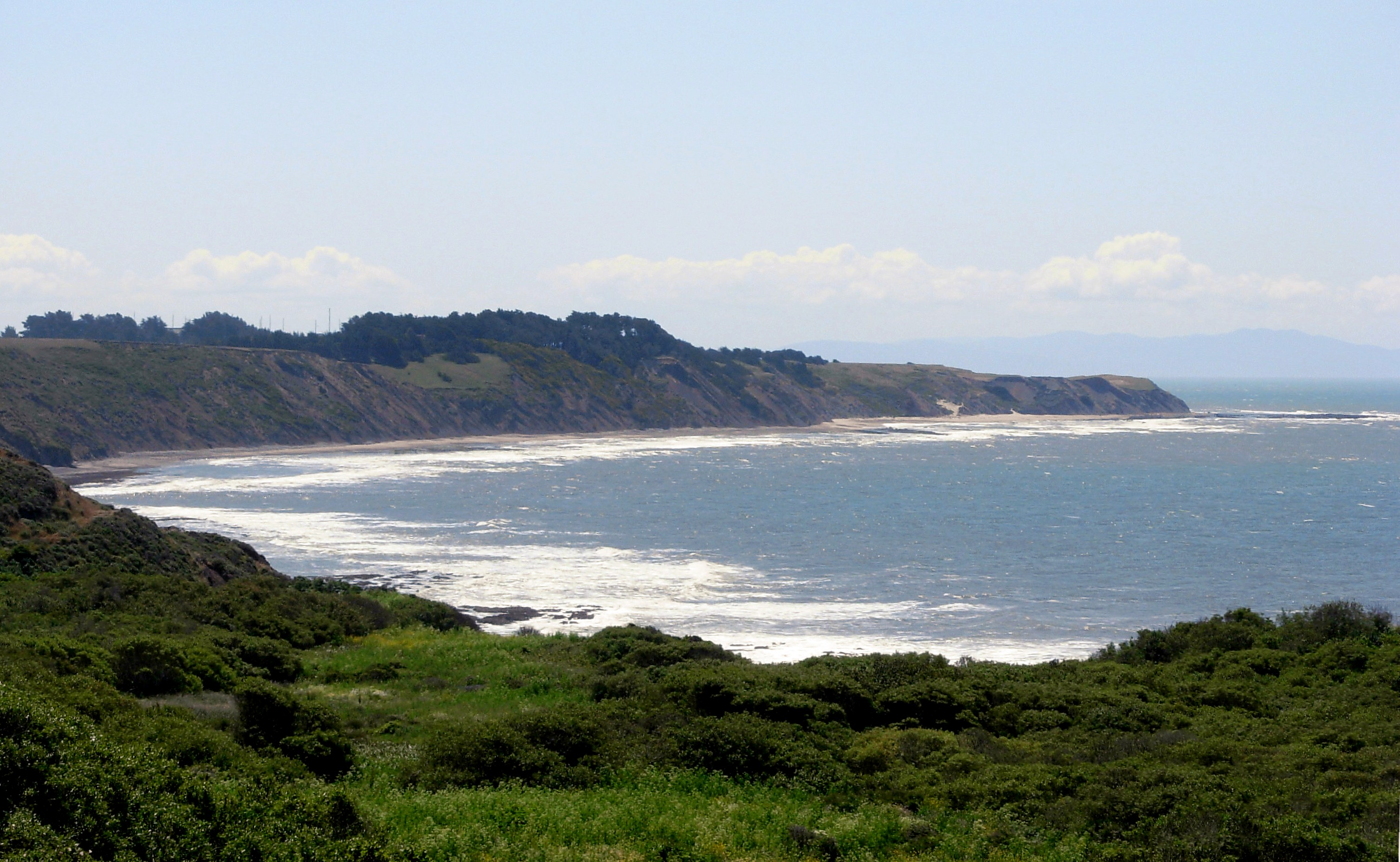 Palomarin Beach at Point Reyes National Seashore